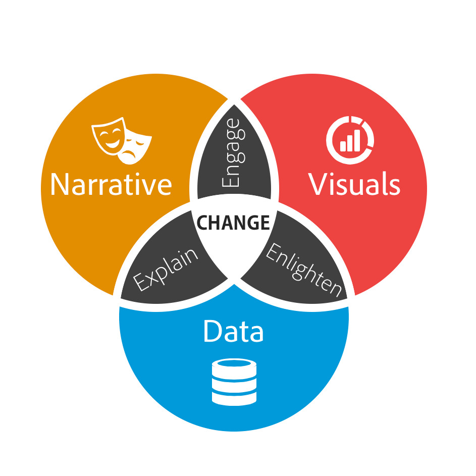 Data Science storytelling